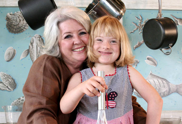 Image of Paula Deen taken as part of a public relations campaign for the nonprofit group Civitan.